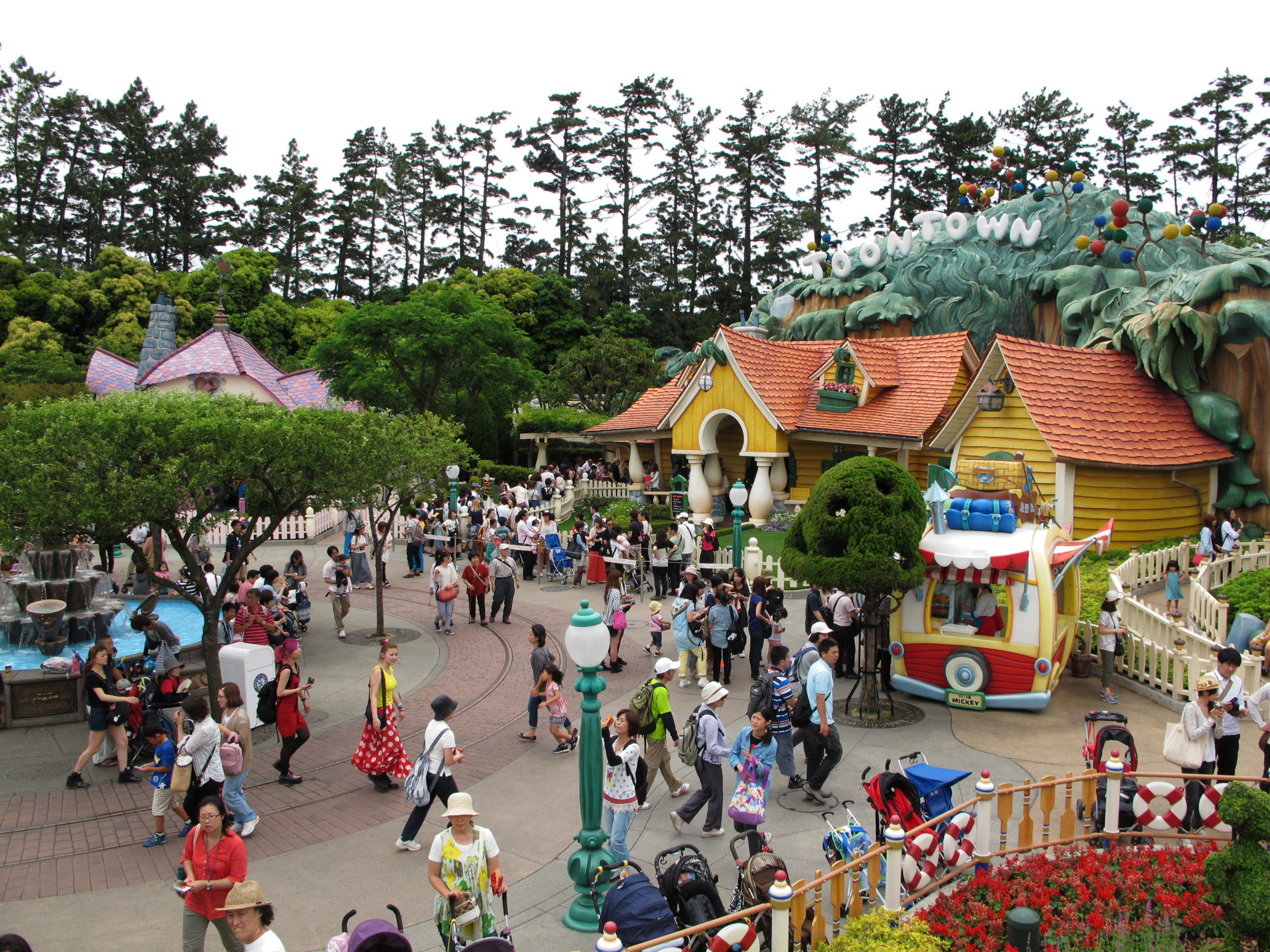 Tokyo Disneyland Toontown view